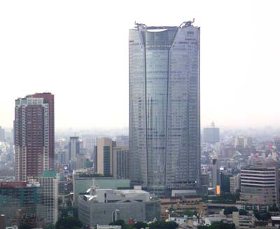 Roppongi-Hills Taken from Tokyo tower.